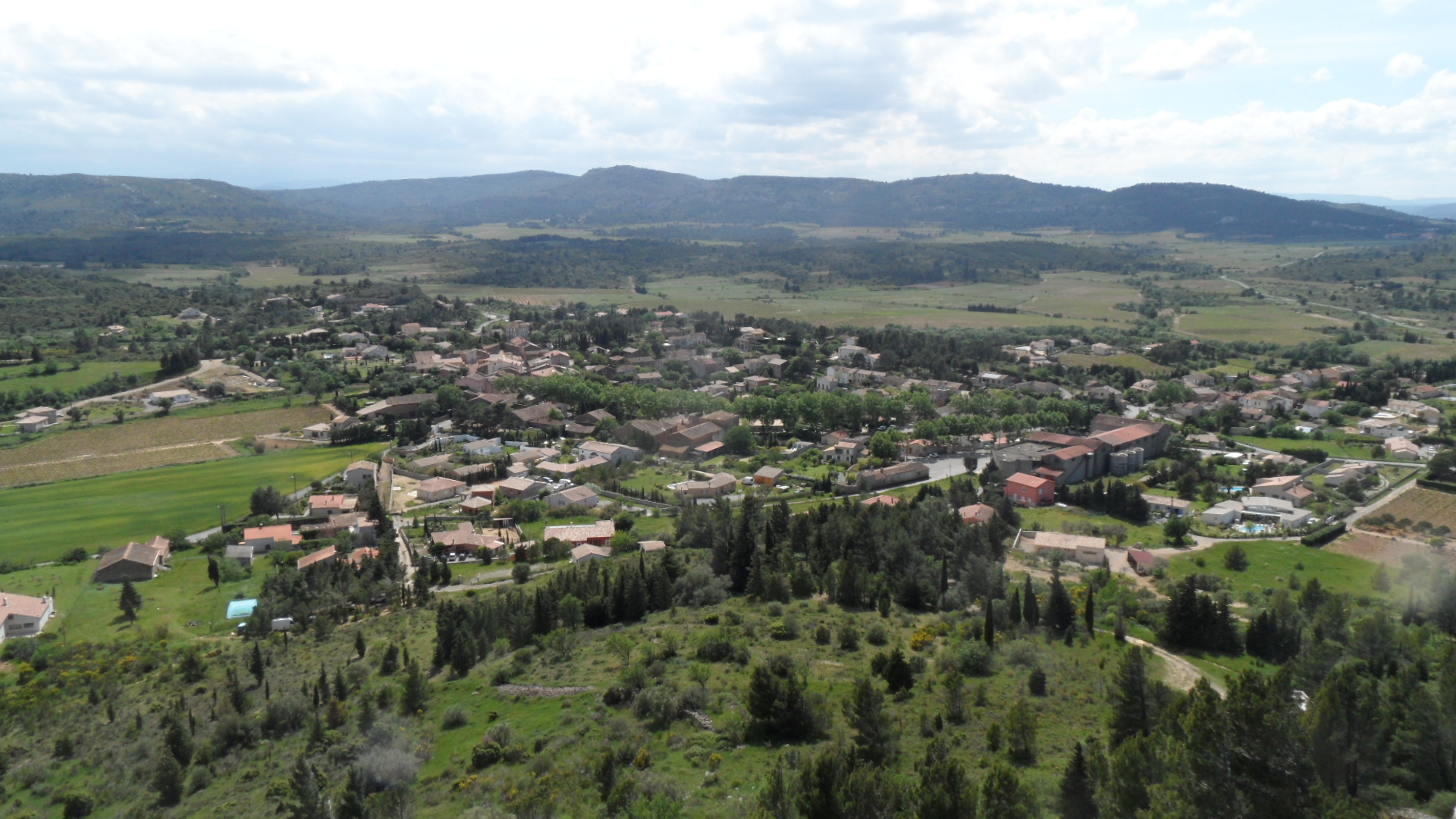 View of Montséret, Aude, France